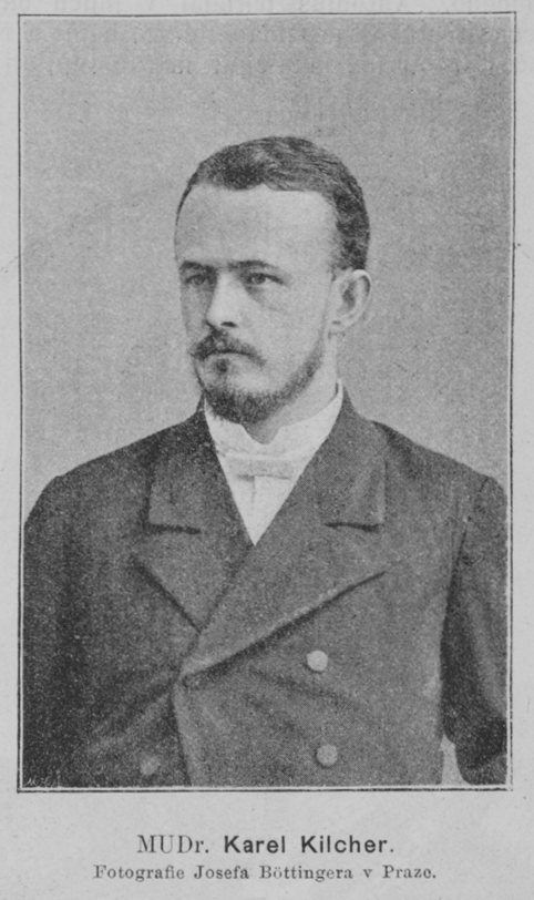 Portrait of Karel Kilcher (1862-1888), Czech physician, researcher of typhoid fever.